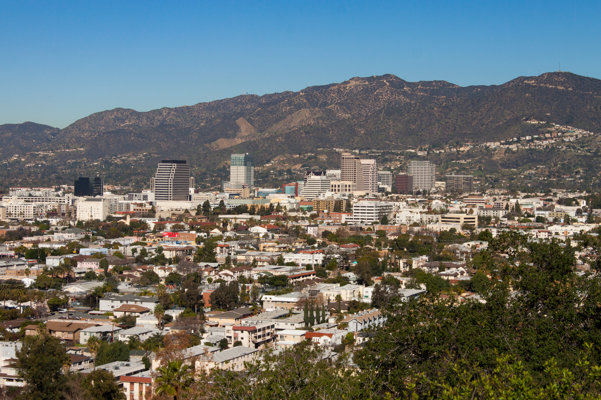 Glendale, California on January 23rd, 2015 Photo taken from Forest Lawn, Glendale